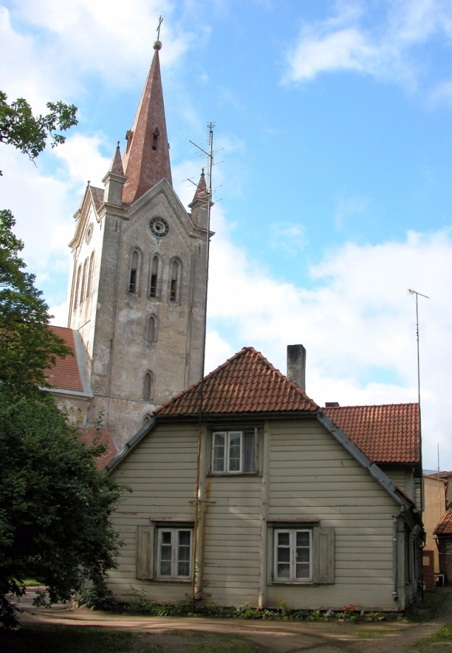 Cēsis, Latvia: Wooden house with church.